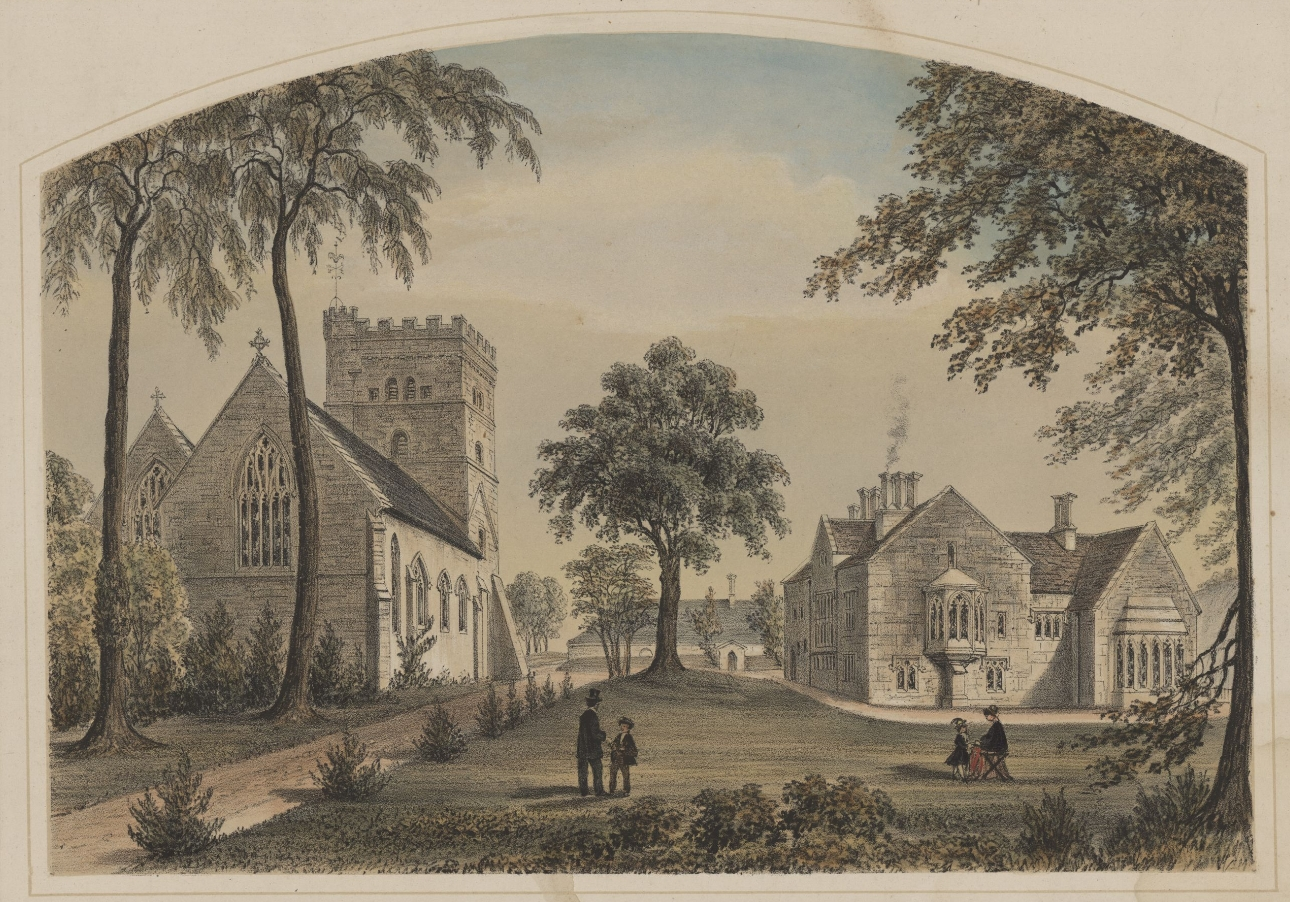 A general view of St. Mary's church and Usk Priory with people standing and seated on the lawns between them.